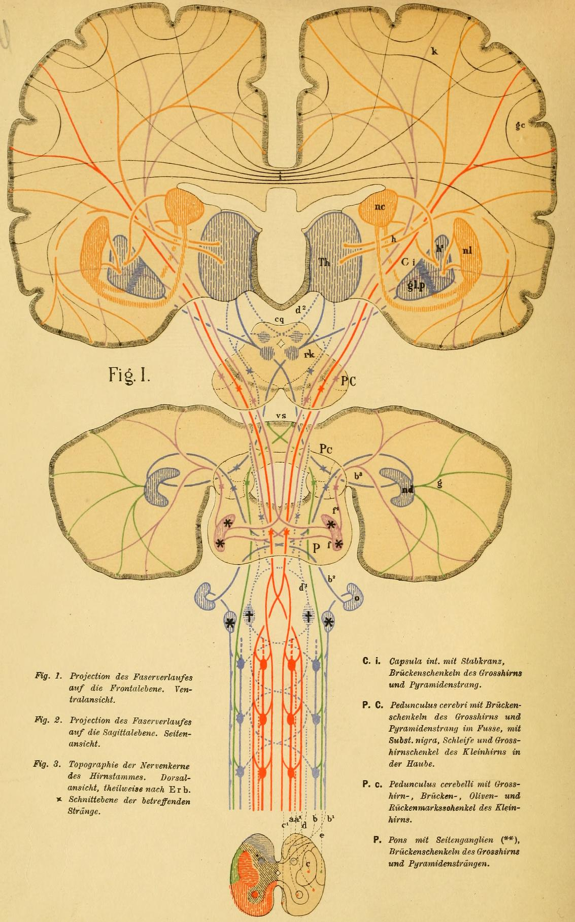 Illustration from Aeby's monograph "Schema des Faserverlaufes im menschlichen Gehirn und Rückenmark" (1884)